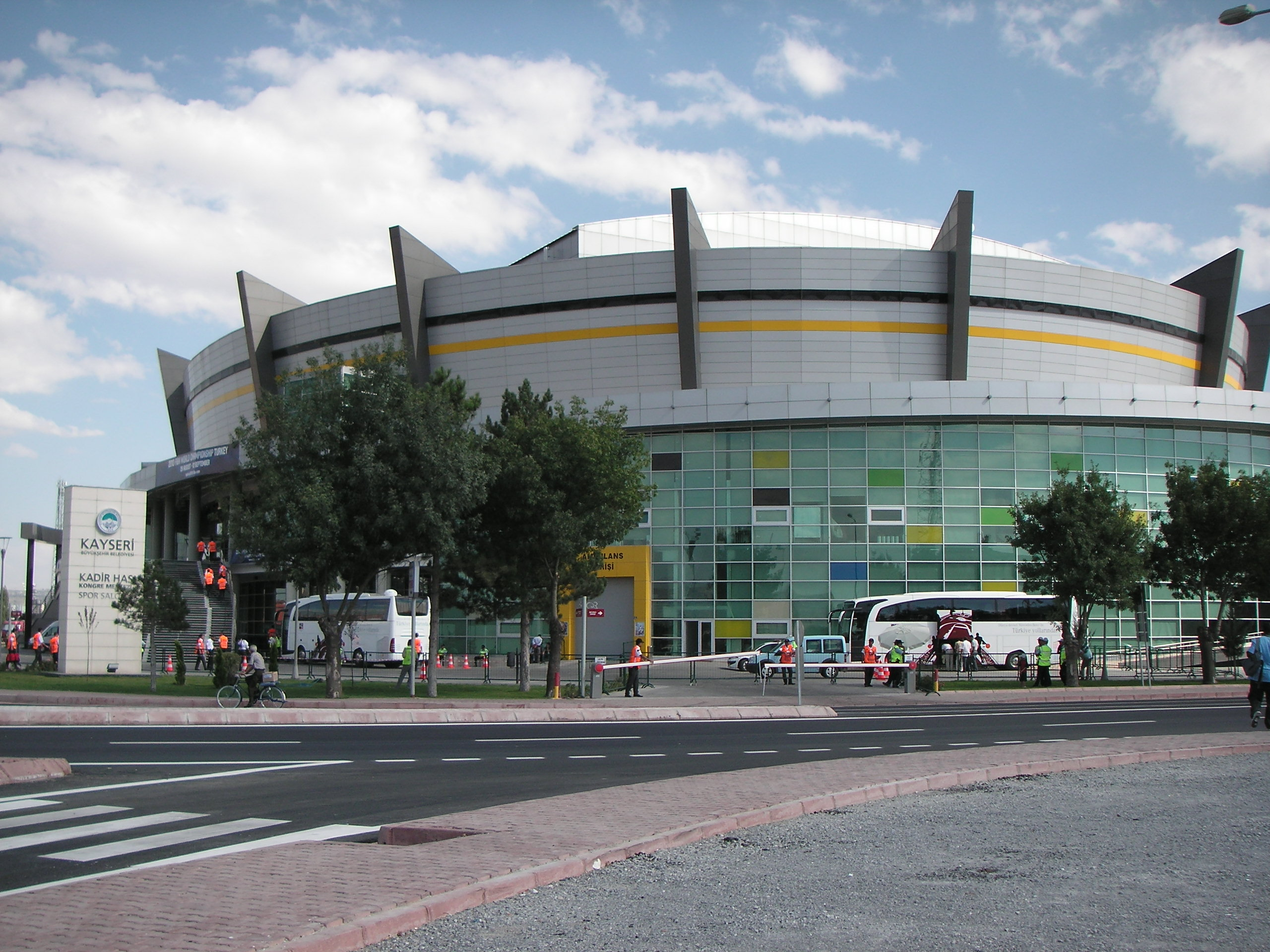 Arena Kadir Has Kongre ve Spor Merkezi in Kayseri during 2010 FIBA Basketball World Championship.